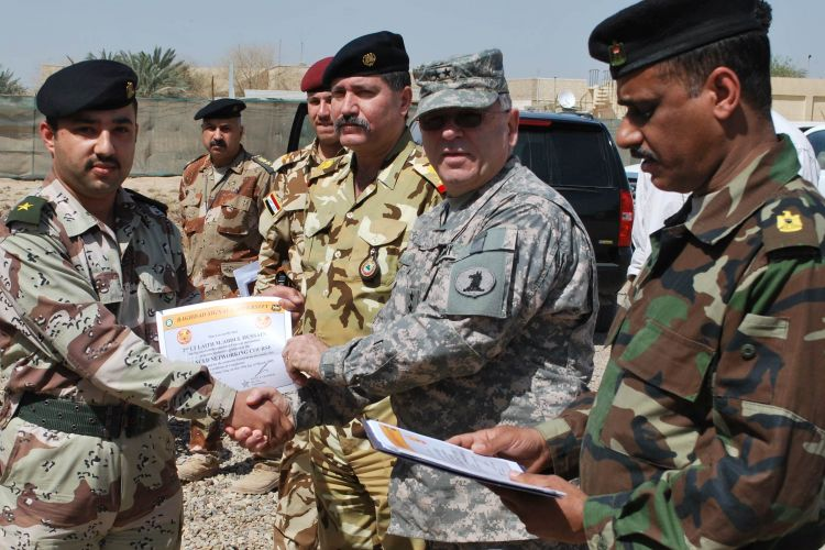 Maj. Gen. Frank Vavala meets with members of the Iraqi Army during a visit to Baghdad, Iraq in 2010. (U.S. Army Photo)